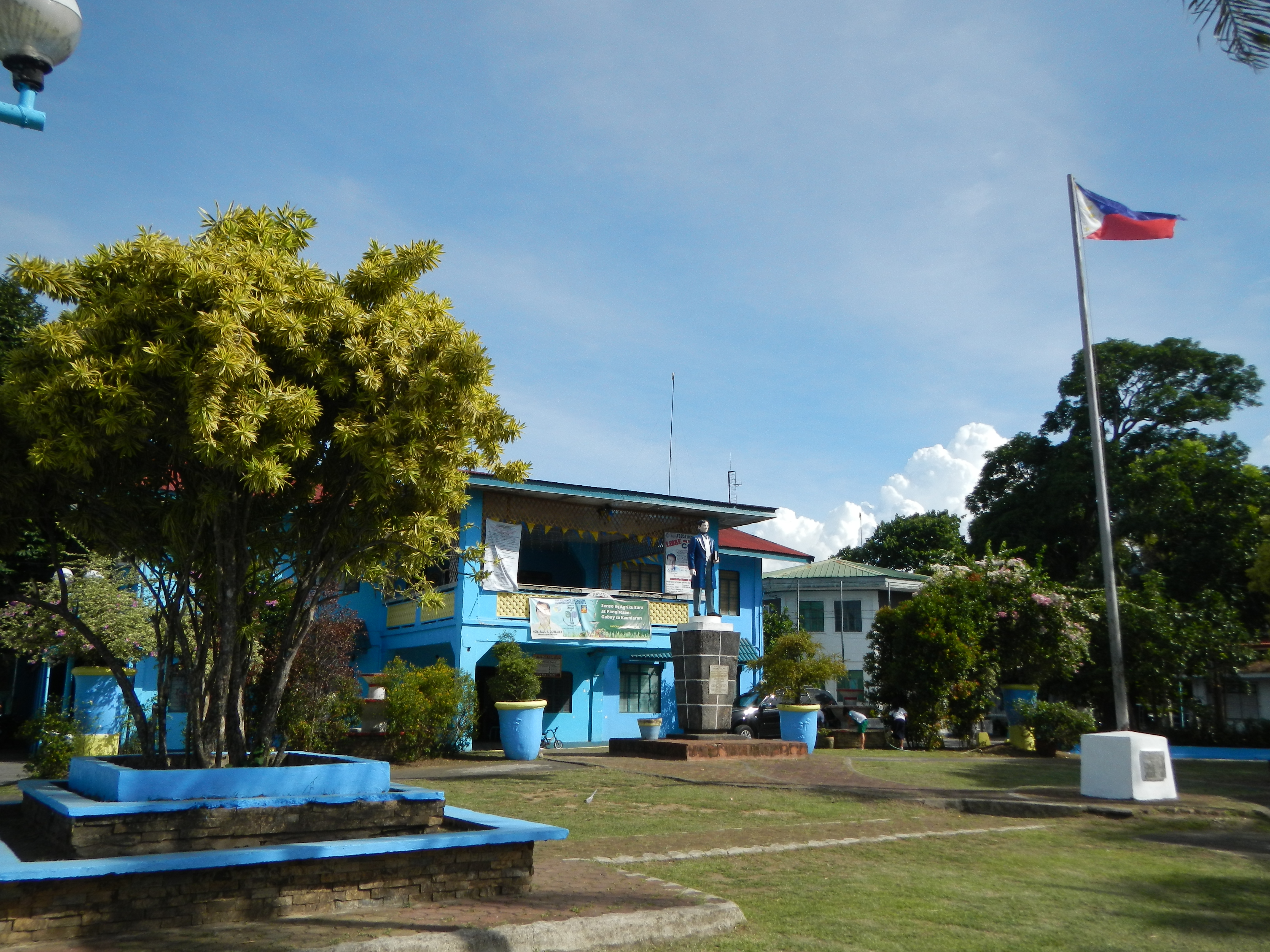 Victoria Municipal Hall[1] [2] [3] Magsaysay, Nanhaya, Laguna, 4011, Philippines latitute 14.2274636 longitude 121.3281636 [4] - including the Mayor's Office, Sangguniang Bayan, Police Station and adjoining Gym, Plaza, School and Muncipal Court, etc. --- Victoria, Laguna[5] is a fourth class municipality in the province of Laguna, [6] Philippines. According to the latest census, it has a population of 34,604 people. It is southeast of Laguna de Bay, [7] 90 kilometres (56 mi) south of Manila and bordered by the Municipality of Calauan[8] to the southwest, Nagcarlan to the southeast and Pila[9] to the northeast. The municipality has a total land area of 22.83 square kilometres which is 1.30% of the total land area of the province of Laguna. Its name was adopted from President Quirino's daughter Victoria Quirino. [10] After Pateros became highly urbanized and densely populated, Victoria became a destination of balut traders and became the "Duck[11] Raising Center of the Philippines". The town was featured as the detour challenge of Leg 11 of the 5th Season[12] of the Amazing Race[13]. Victoria celebrate their Itik Festival every last week of April. Victoria is politically subdivided into 9 barangays. Two of these, Nanhaya and San Roque, are classified as urban while the rest are rural. Banca-banca, Nanhaya (Pob.), San Francisco, inter alia. Municipal officials 2010-2013: Mayor: Nonong Gonzalez Vice Mayor: Florencio "Toknie" M. Larańo [14] Coordinates: 14°11'56"N 121°20'22"E [15] [16] This place is situated in Laguna, Region 4, Philippines, its geographical coordinates are 14° 13' 37" North, 121° 19' 39" East and its original name (with diacritics) is Victoria.